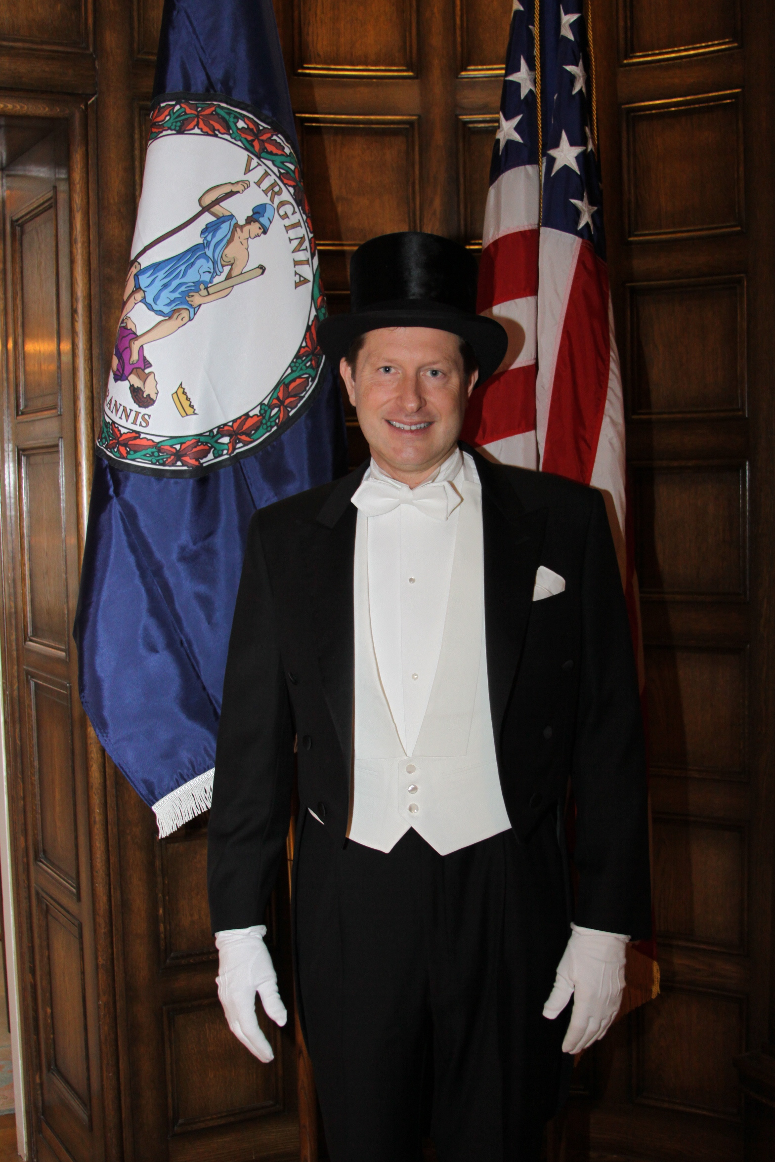 Ambassador Mark Brzezinski presented his credentials to His Majesty King Carl XVI Gustaf on November 24, 2011 to formally take up his role as U.S. Ambassador to the Kingdom of Sweden.